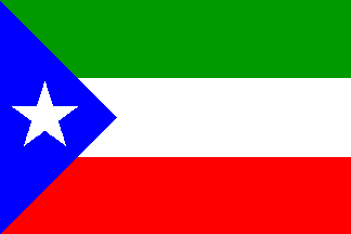 Santa Cruz de la Sierra (Republic 1904); Flag used by independentists in 1904-1960s in Bolivia